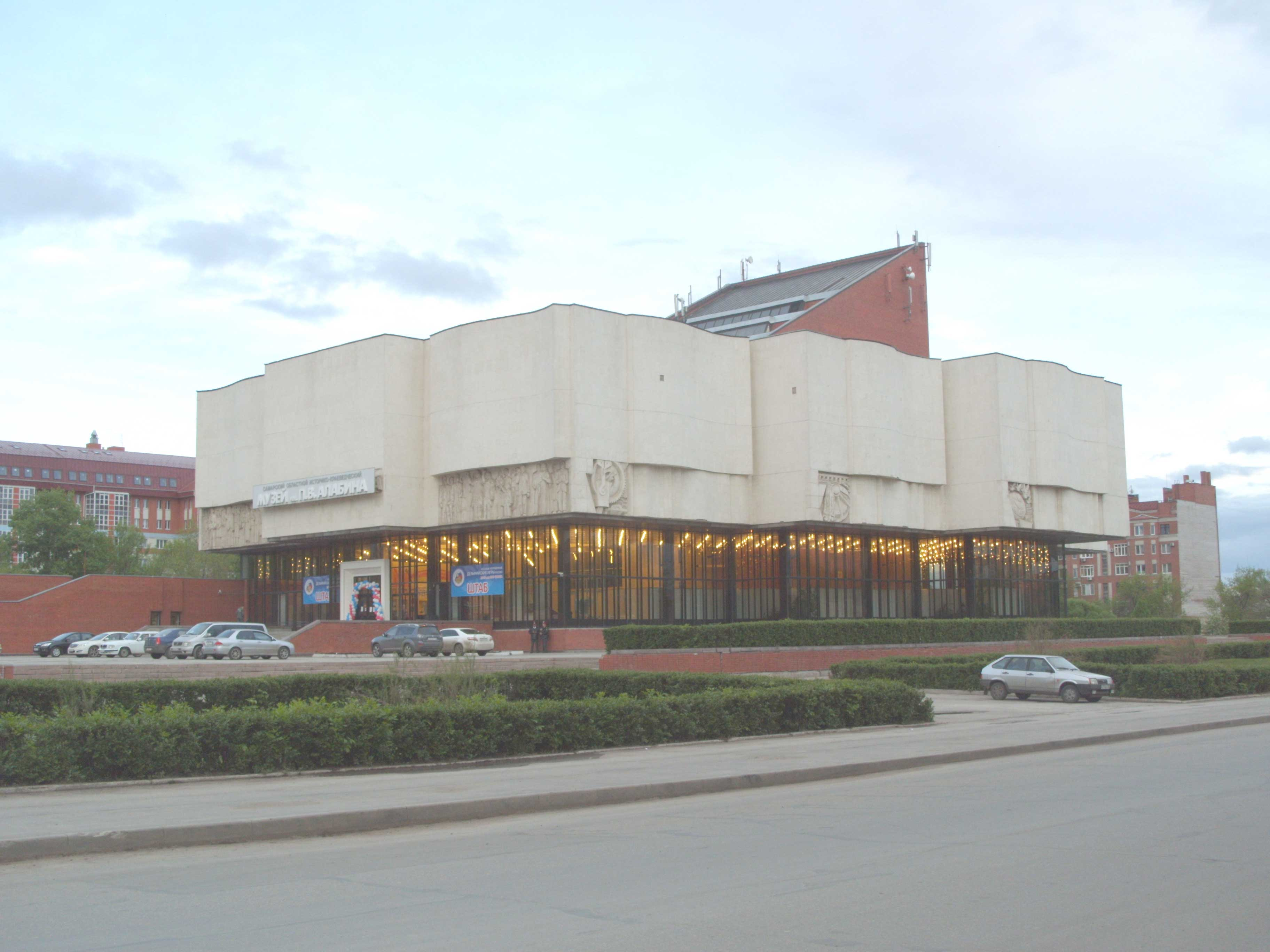 Alabina museum, delphic games staff